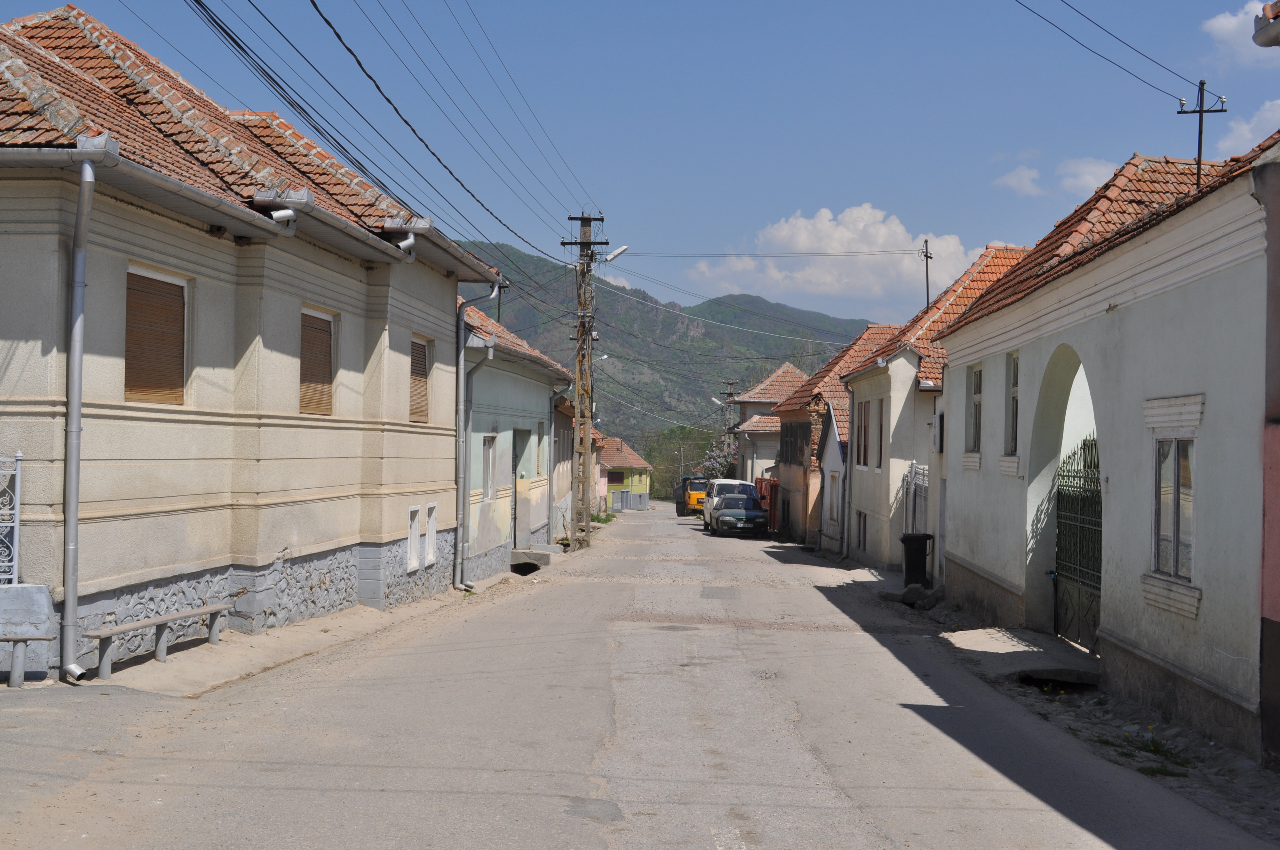 Sălașu de Jos, Hunedoara county, Romania